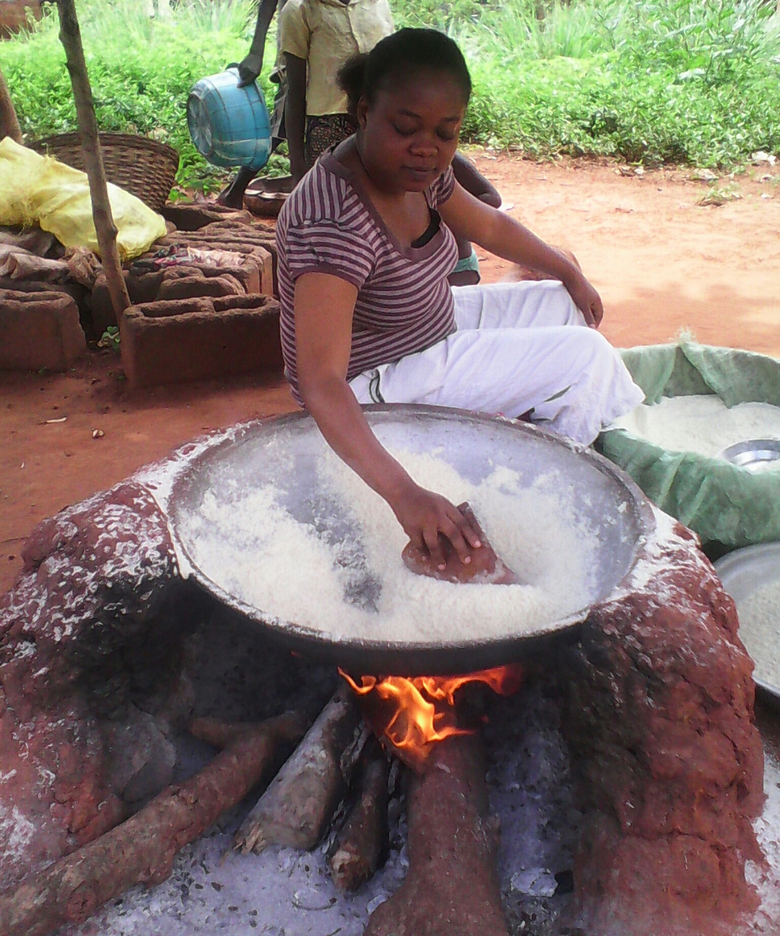 this image is of a woman making Cassava flakes, the final stage of the preparation which requires pilling the back, blending of cassava tubers, draining and finally roast a staple food in Nigeria, west Africa. this occupation is mostly practiced by women in this region. this image was taken when i went on vacation to Sawonjo, in Ogun state, Nigeria This is an image of "African people at work" from Nigeria